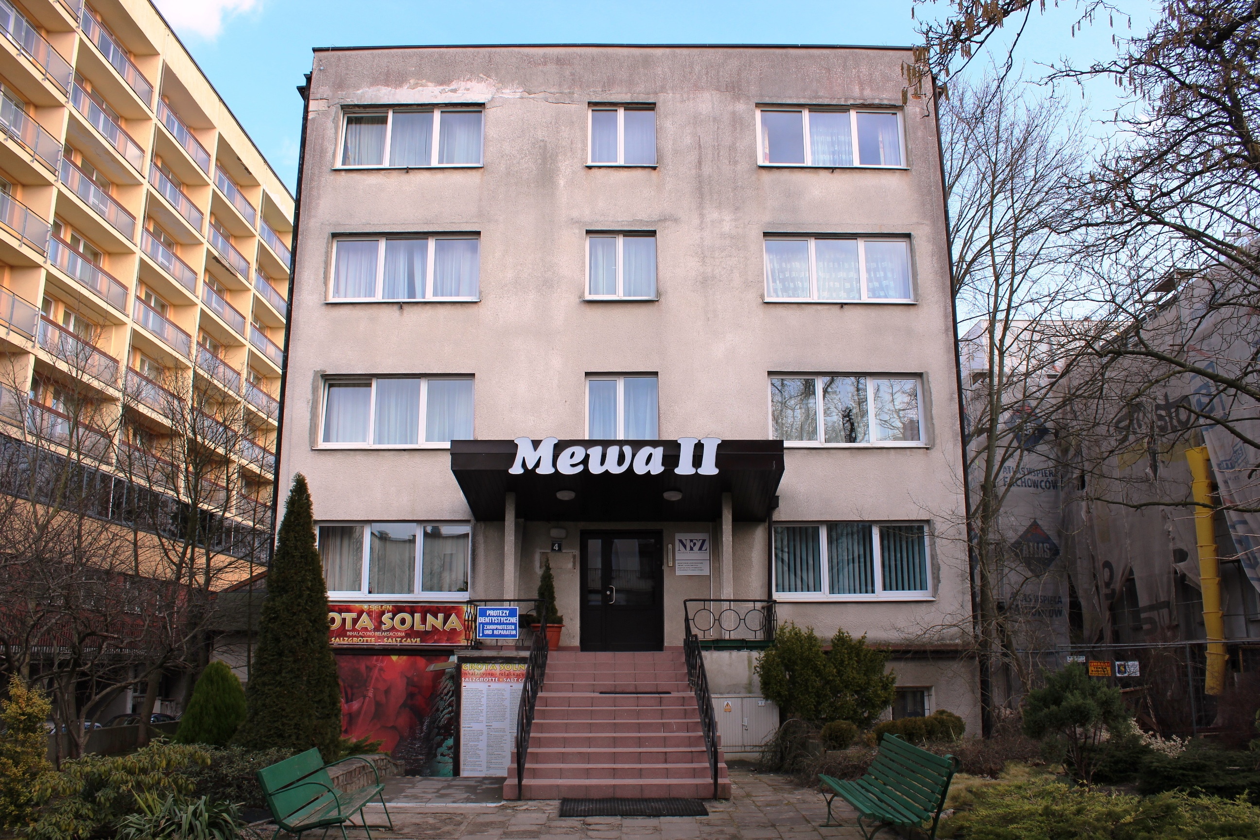 Mewa II Sanatorium in Kołobrzeg